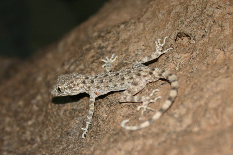 Cyrtopodion longipes at Bazman (Iranshahr, Sistan & Baluchestan, Iran)